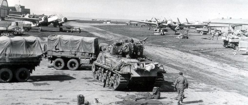 A U.S. tank division with M4 Shermans occupy Langensalz near Mulhausen on 7 April 1945. Visible in front of the hangers are some of the airbase's Ju 88 G-6's.